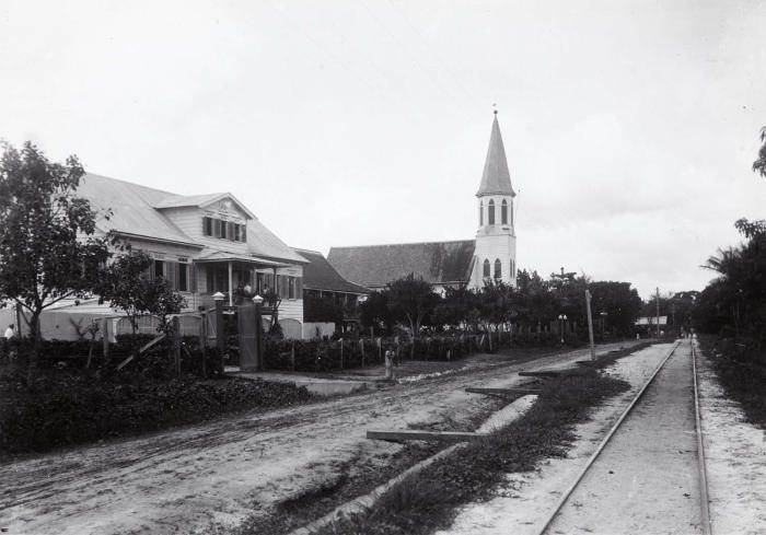 Church and Saron Boarding School of the Moravian Brothers (also called Hernhutters)